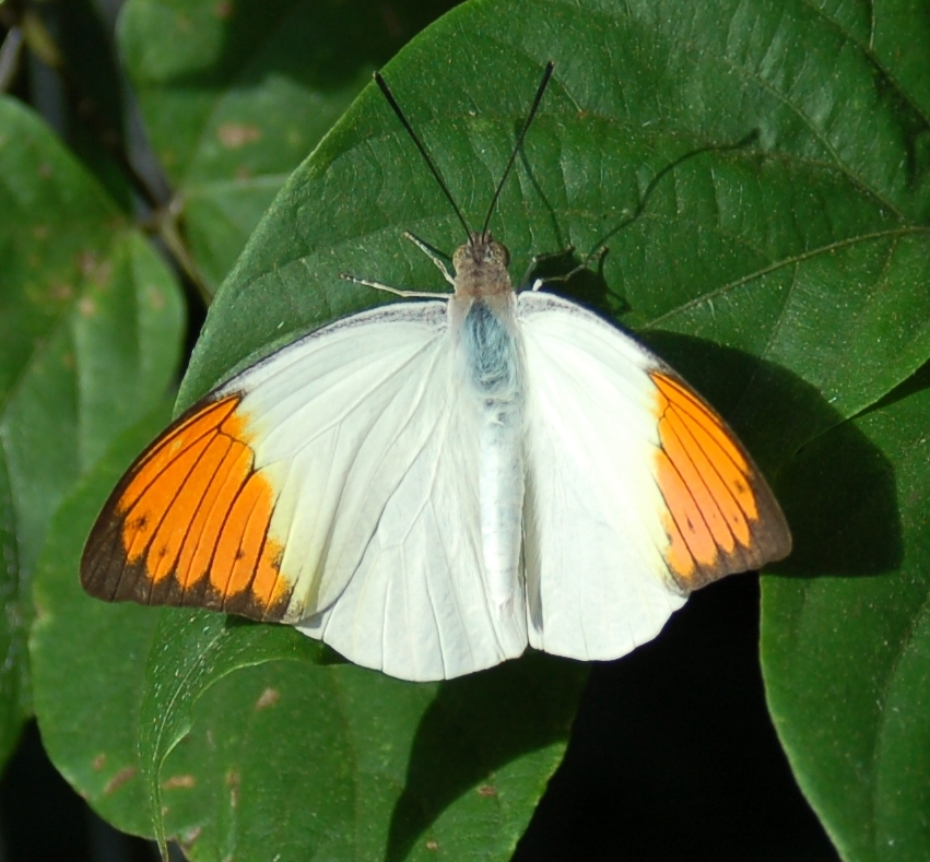 Hebomoia glaucippe - botanika Bremen